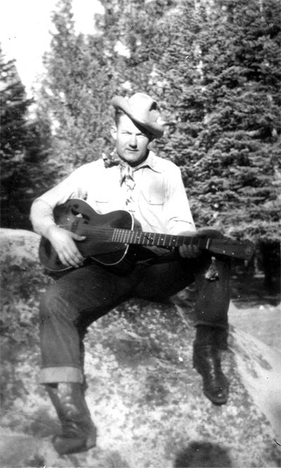 Karl Unruh of Goessel Kansas playing guitar at Airport Spike Camp associated with Civilian Public Service Snowline Camp (CPS #31) near Camino California, 1945. From the private collection of Leo Harder, licensed under Creative Commons Attribution Share-Alike 2.5.